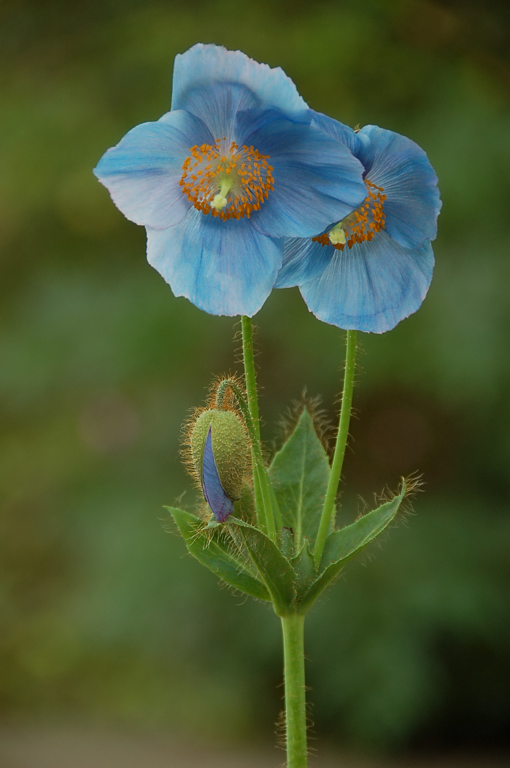 Picture of two Blue Poppy (Meconopsis en sp.) flowers. Photo taken in the North side of the Teacup Garden at the Chanticleer Garden where it was species identified.